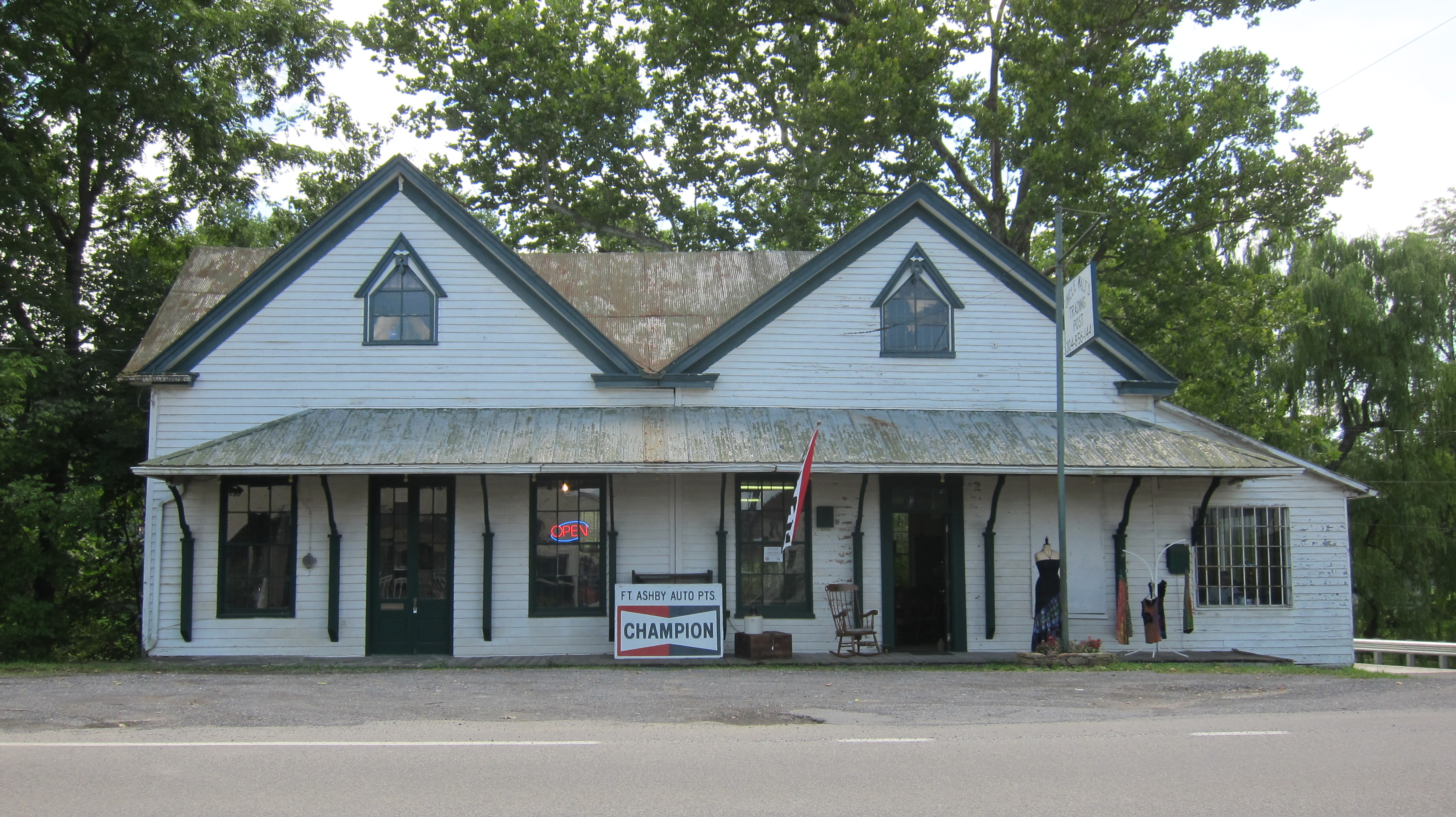 3121 Northwestern Pike is a historic commercial building, dating from the mid-19th century, on U.S. Route 50 in Capon Bridge in the U.S. state of West Virginia. The building has previously served as a community general store and thrift store. Photographed by Quercus montana